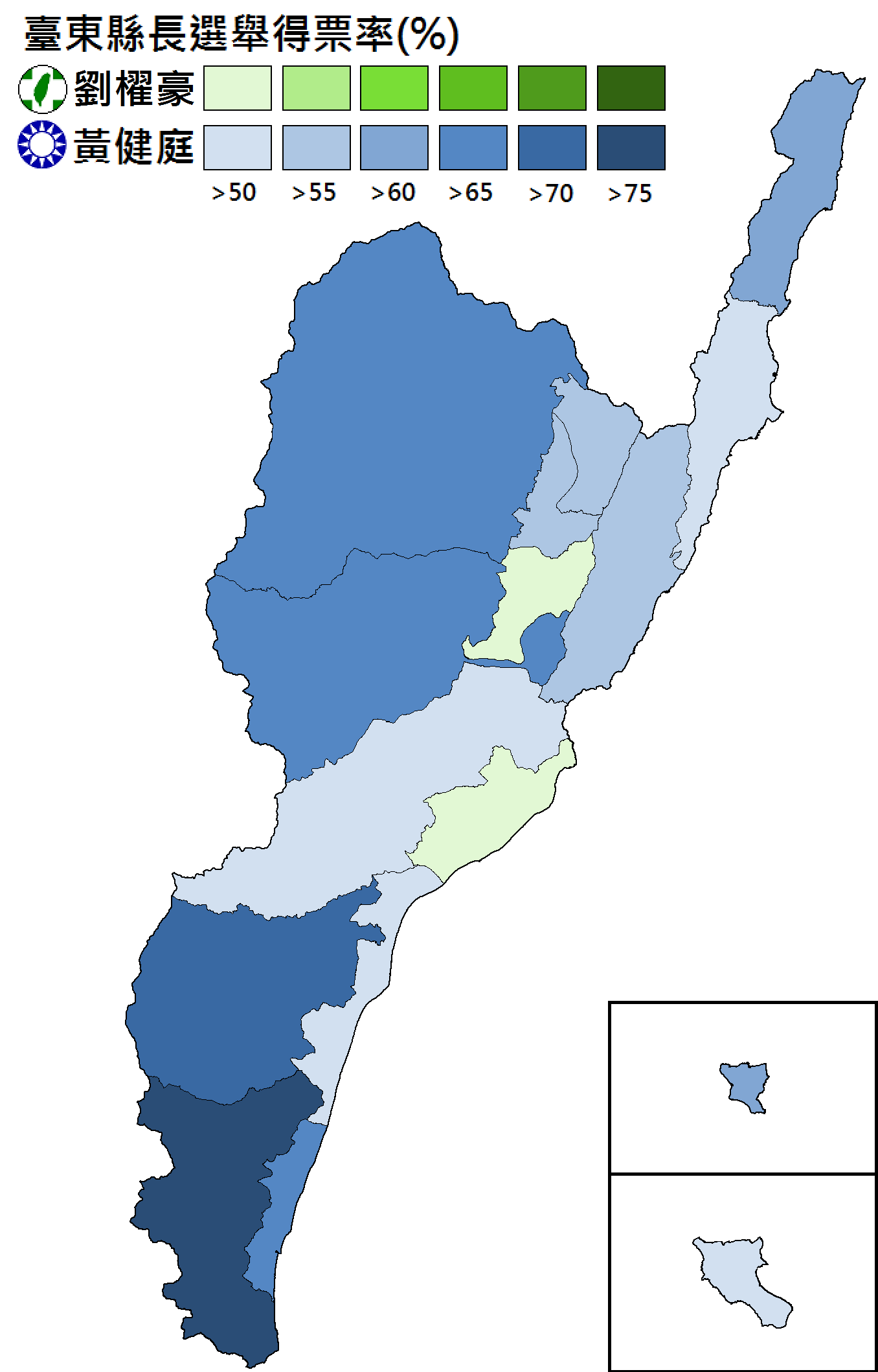 Taitung 2014